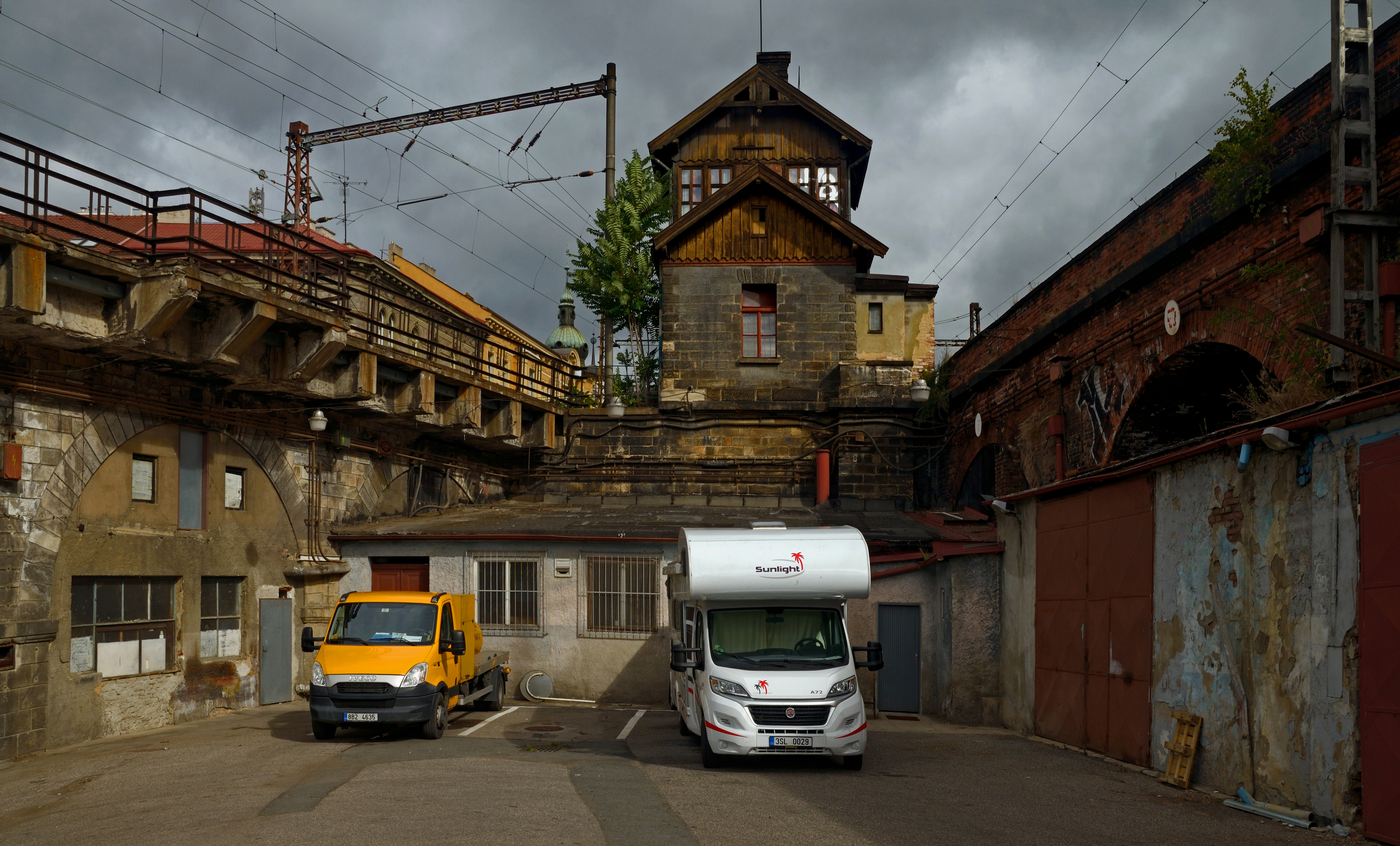 Old garages in Florenc. Prague, Czech Republic